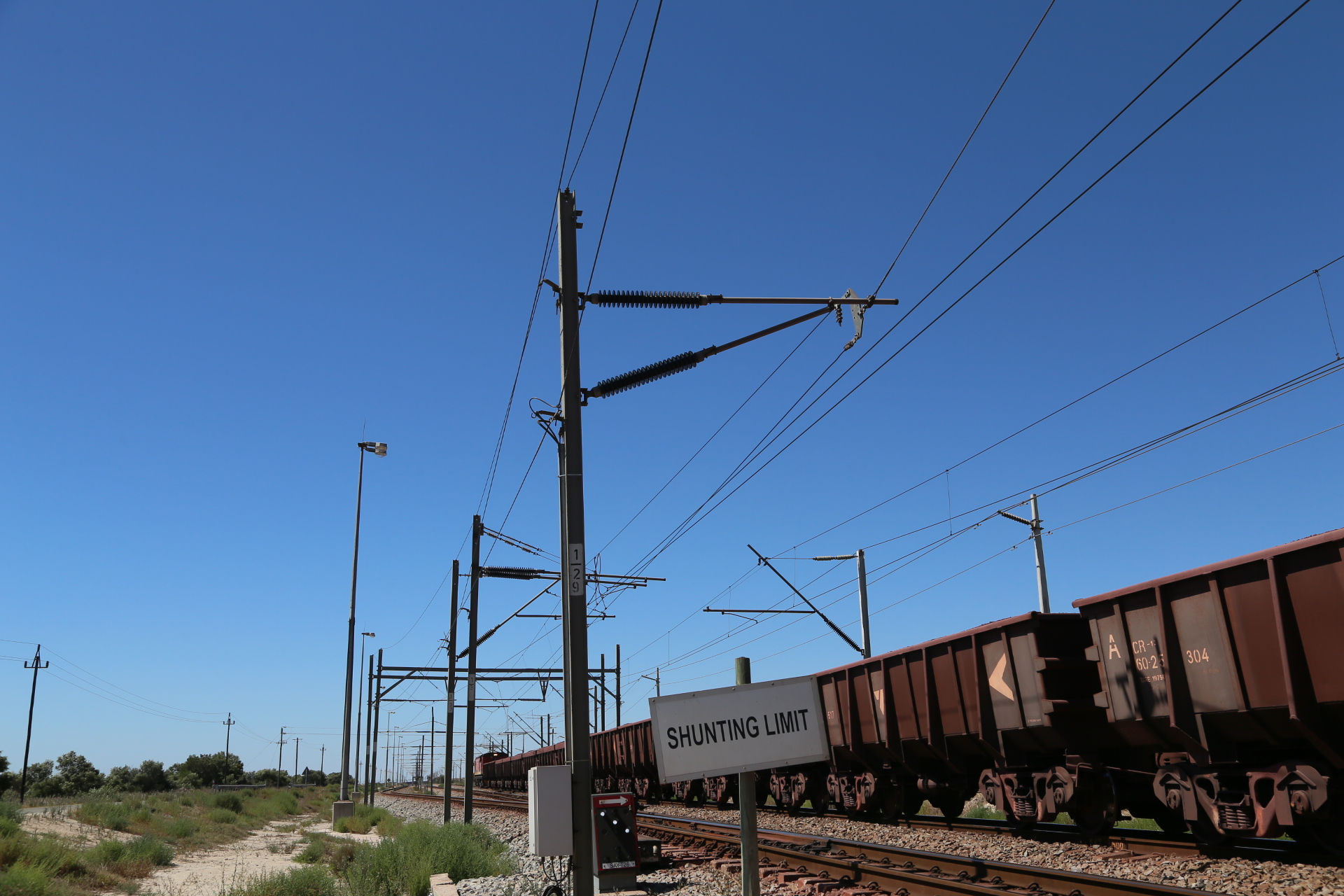 This photo shows the very long insulators of the catenary masts of the Transnet railway line Sishen-Saldanha.